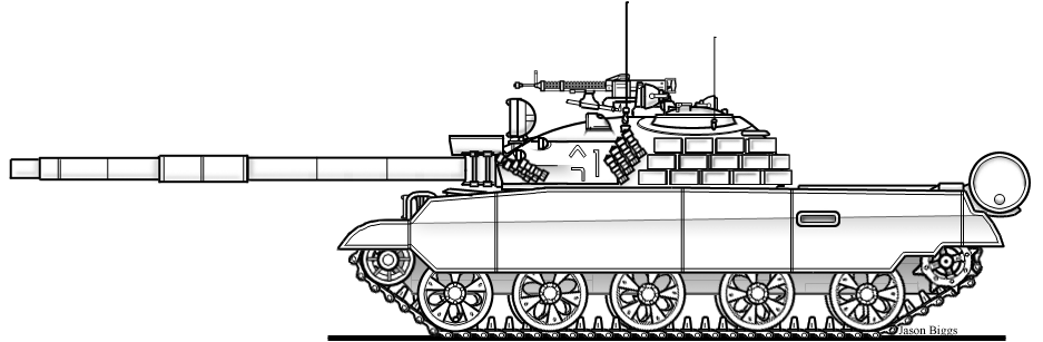 Author is Jason Biggs, drawn on request. He fully understands Wikipedia's GNU license. Image is not copyrighted, and no rights reserved. It has been drawn specifically for Wikipedia.